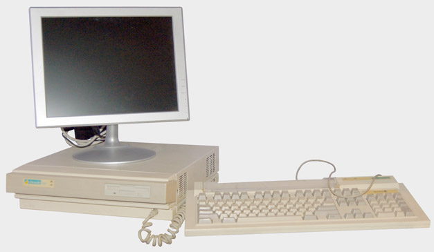 Acorn Archimedes. Photograph taken and edited by User:philcrbk